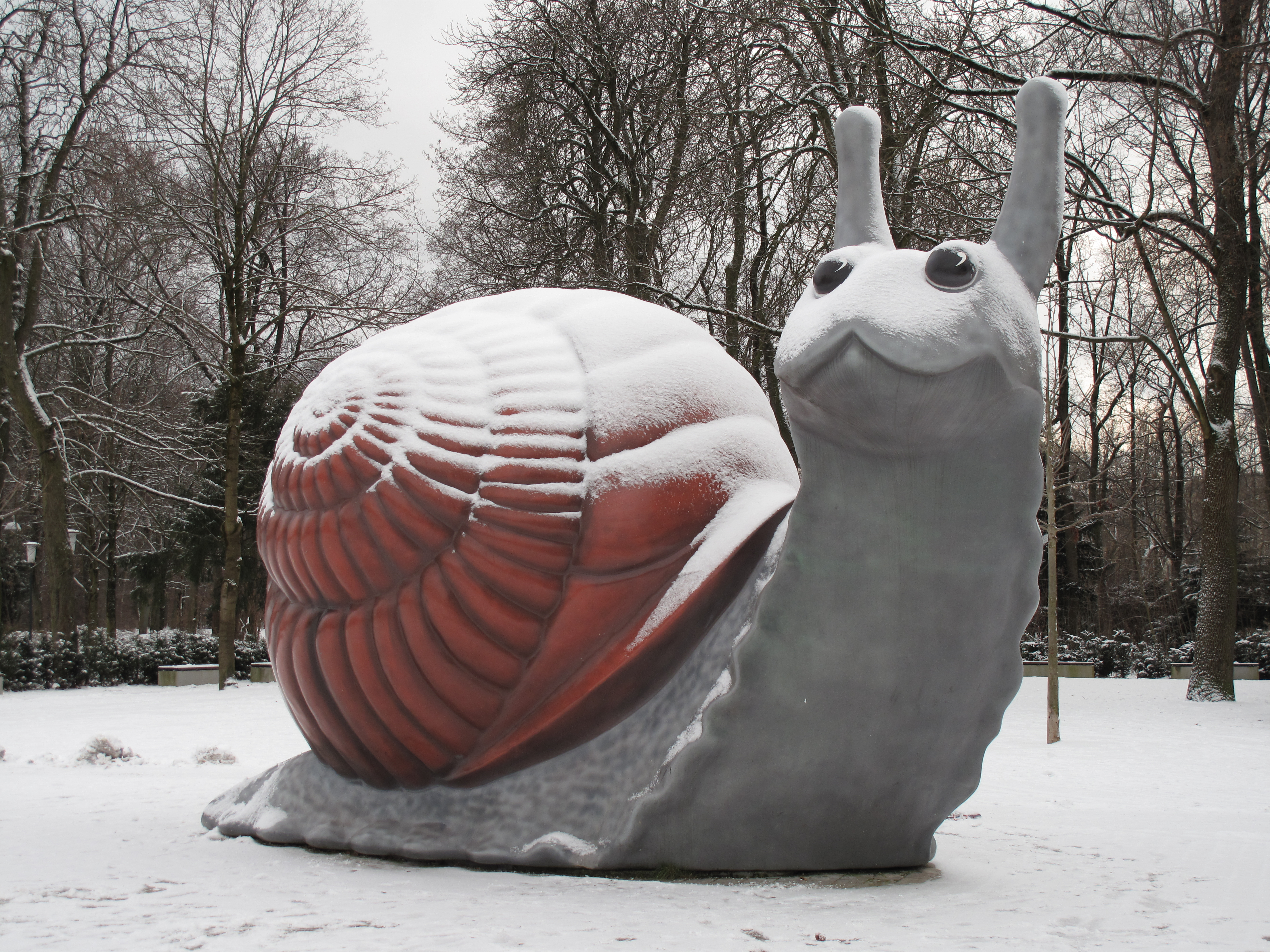 The artwork "Sweet Brown Snail" by the us-american artists Jason Rhoades and Paul McCarthy at the Bavariapark and the Verkehrszentrum of the Deutsche Museum in Munich (district: Schwanthalerhöhe - also called: Westend) at the Theresienhöhe.